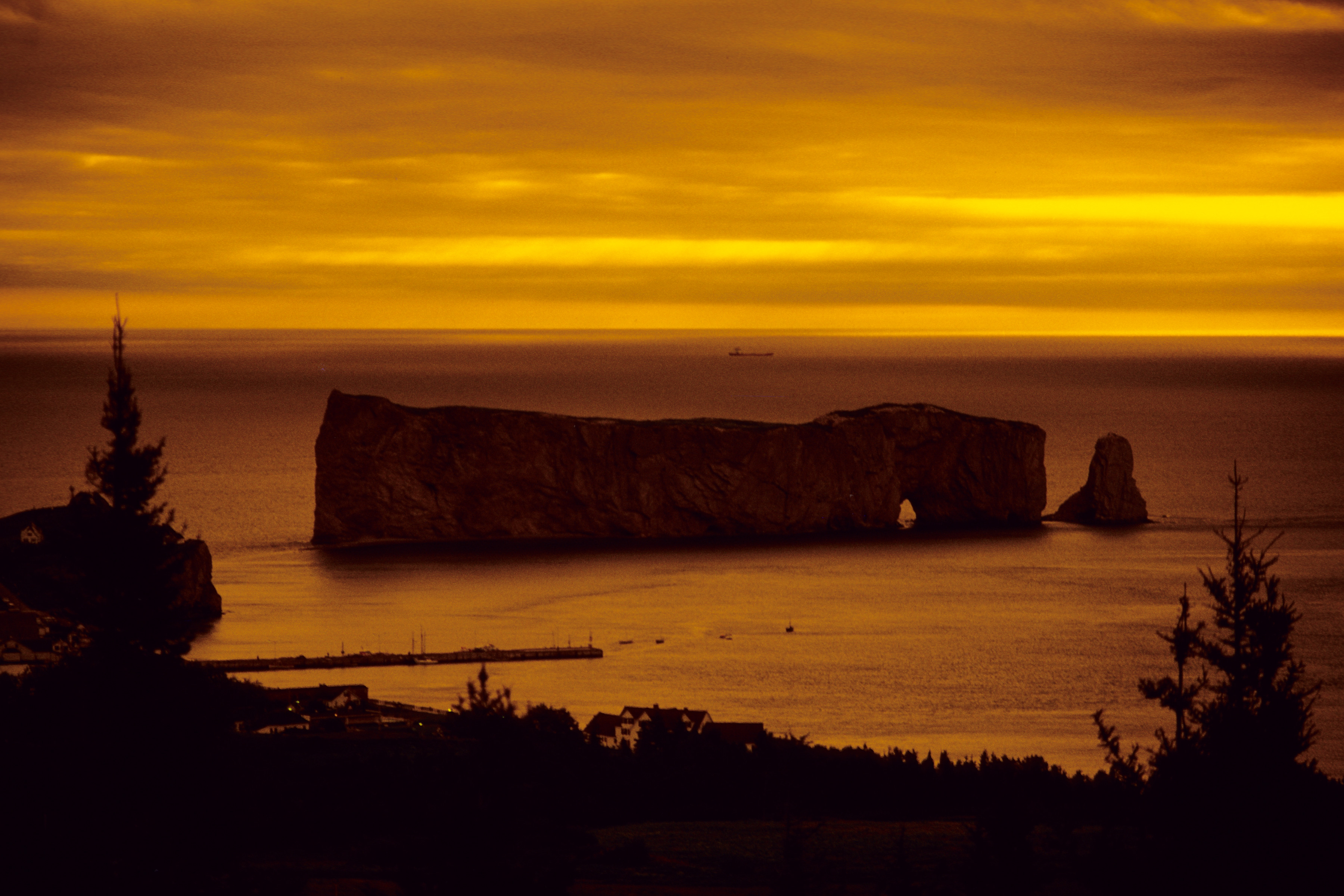 Percé Rock in Quebec, Canada in 1975